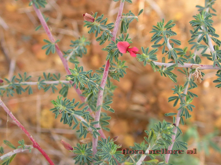 Indigofera aspalathoides